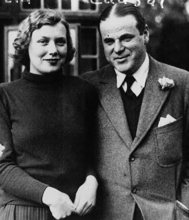 Photograph of Romanian businessman Max Auschnitt (Auşnit) with fiancée Miss Leonora Brooke (the daughter of Charles Vyner Brooke, White Rajah of Sarawak).